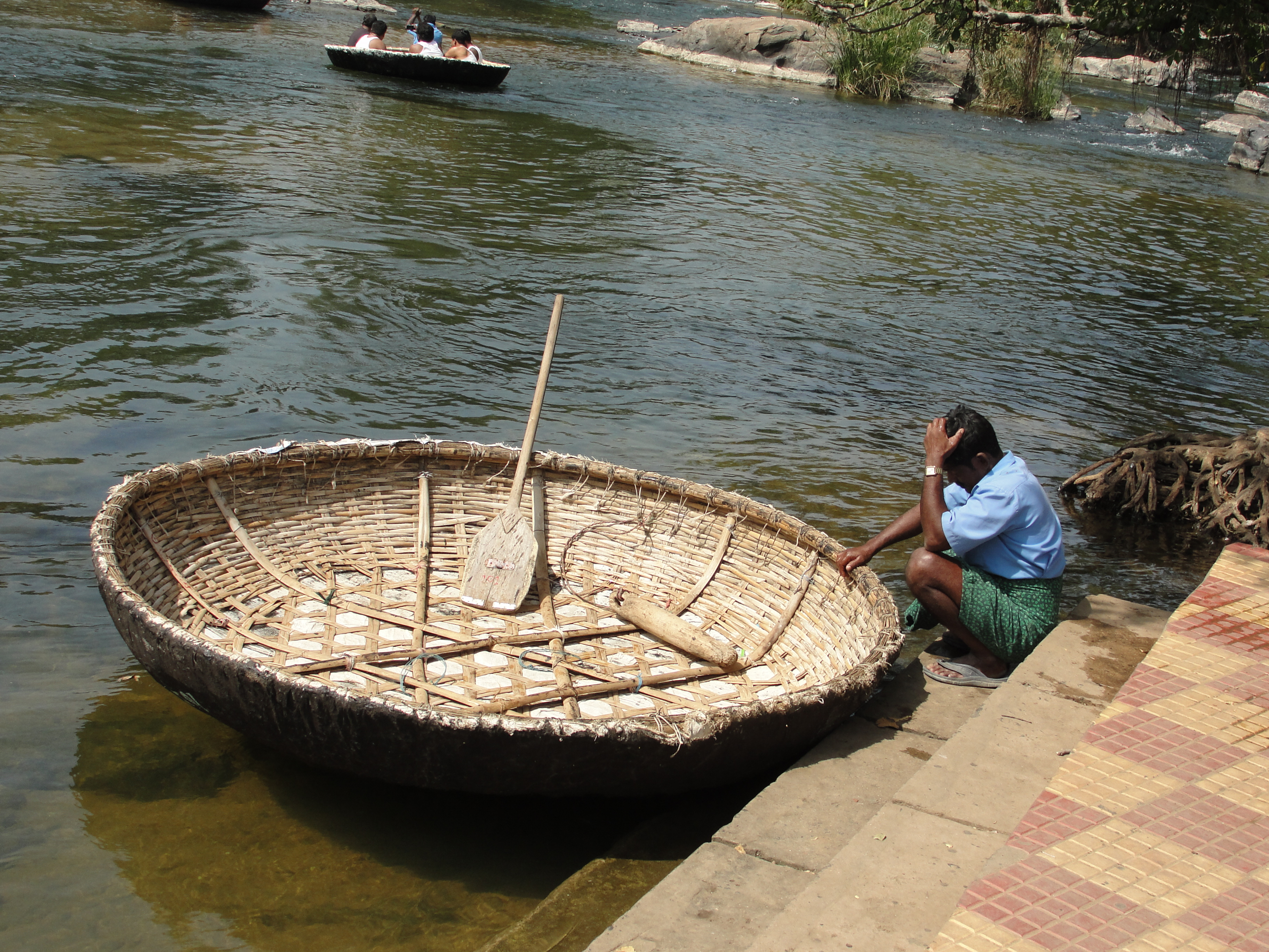 A coracle man in Hokenakal, Dharmapuri district, Tamil Nadu, India.